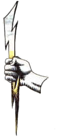 Heironeous Sigil